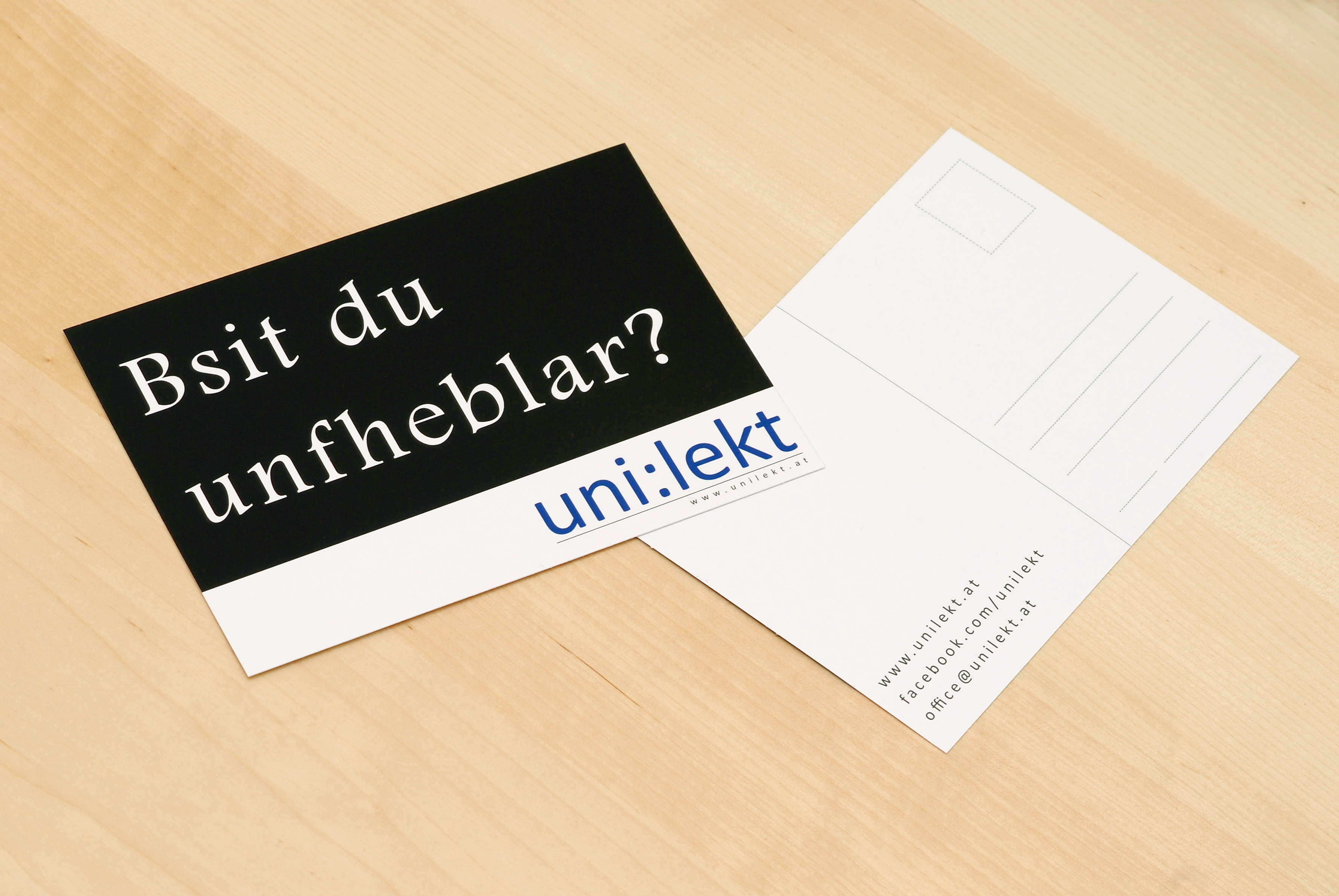 Freecard of an Austrian editorial office